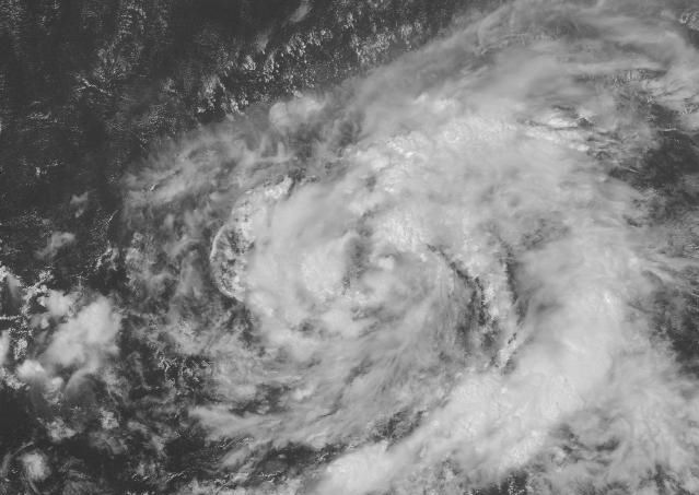 Tropical Storm Karen, in mid-Atlantic 1500 miles east of the Windward Islands on September 25. This visible light image was captured by the GOES-East satellite at 1545 UTC.